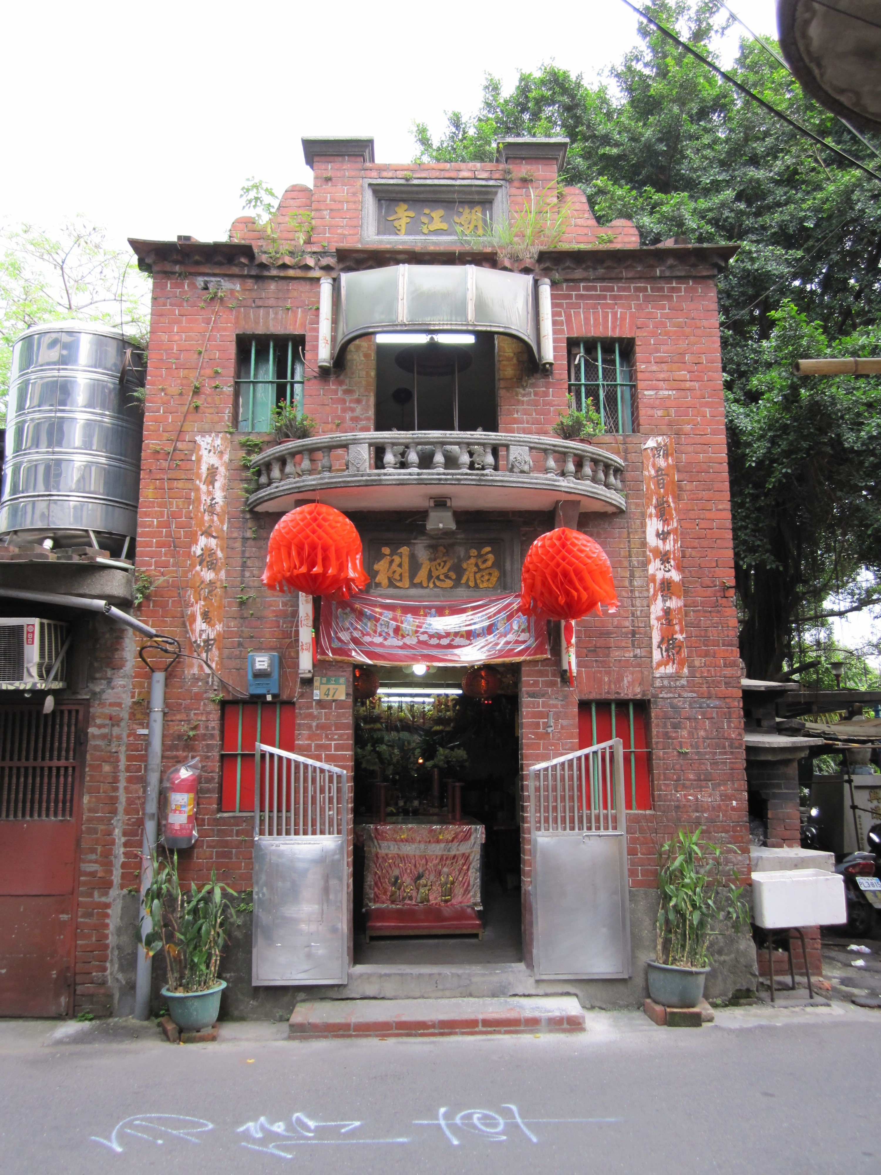 Xinzhuang Chiu Chow Temple, Taiwan